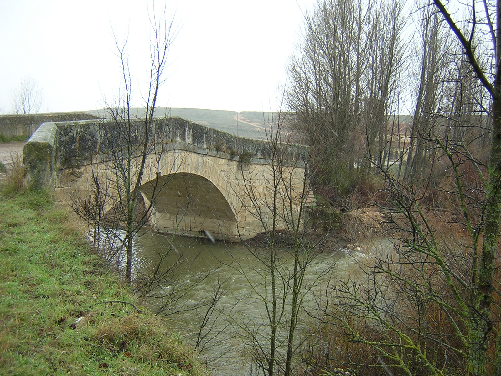 The Duratón river across romanesque bridge in Duratón.